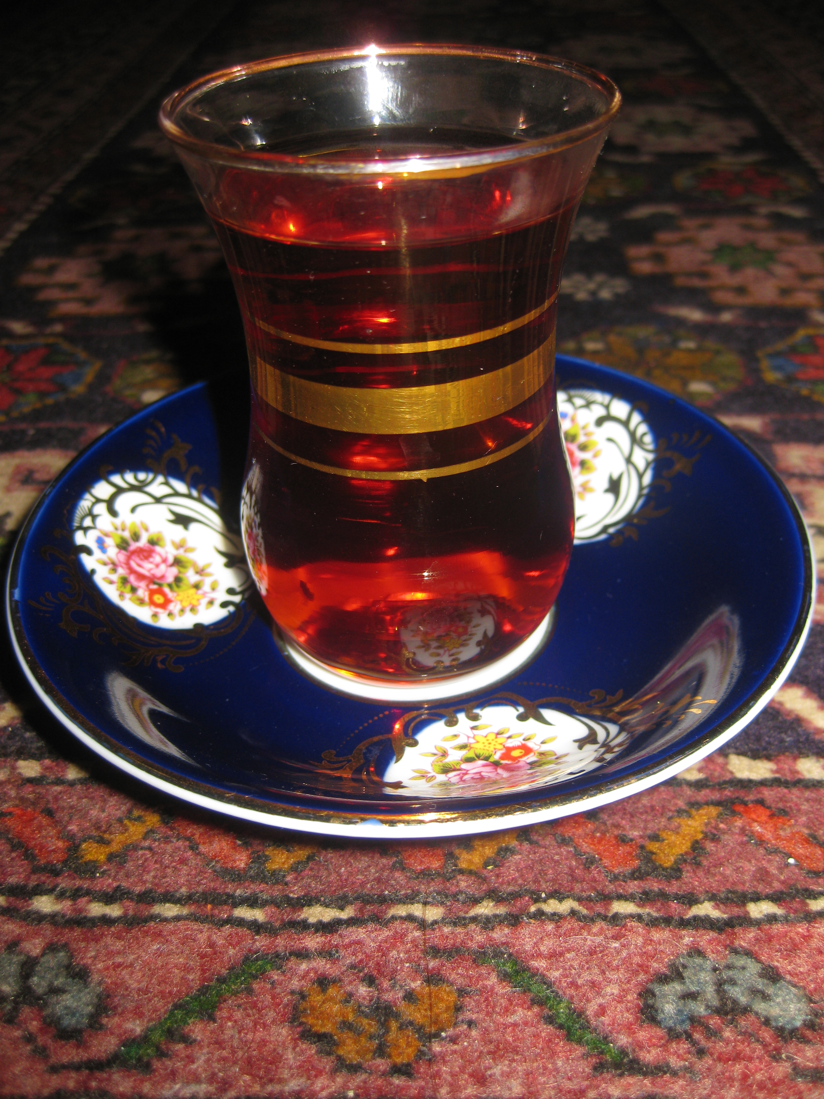 An Iranian (Perisan) glass of tea